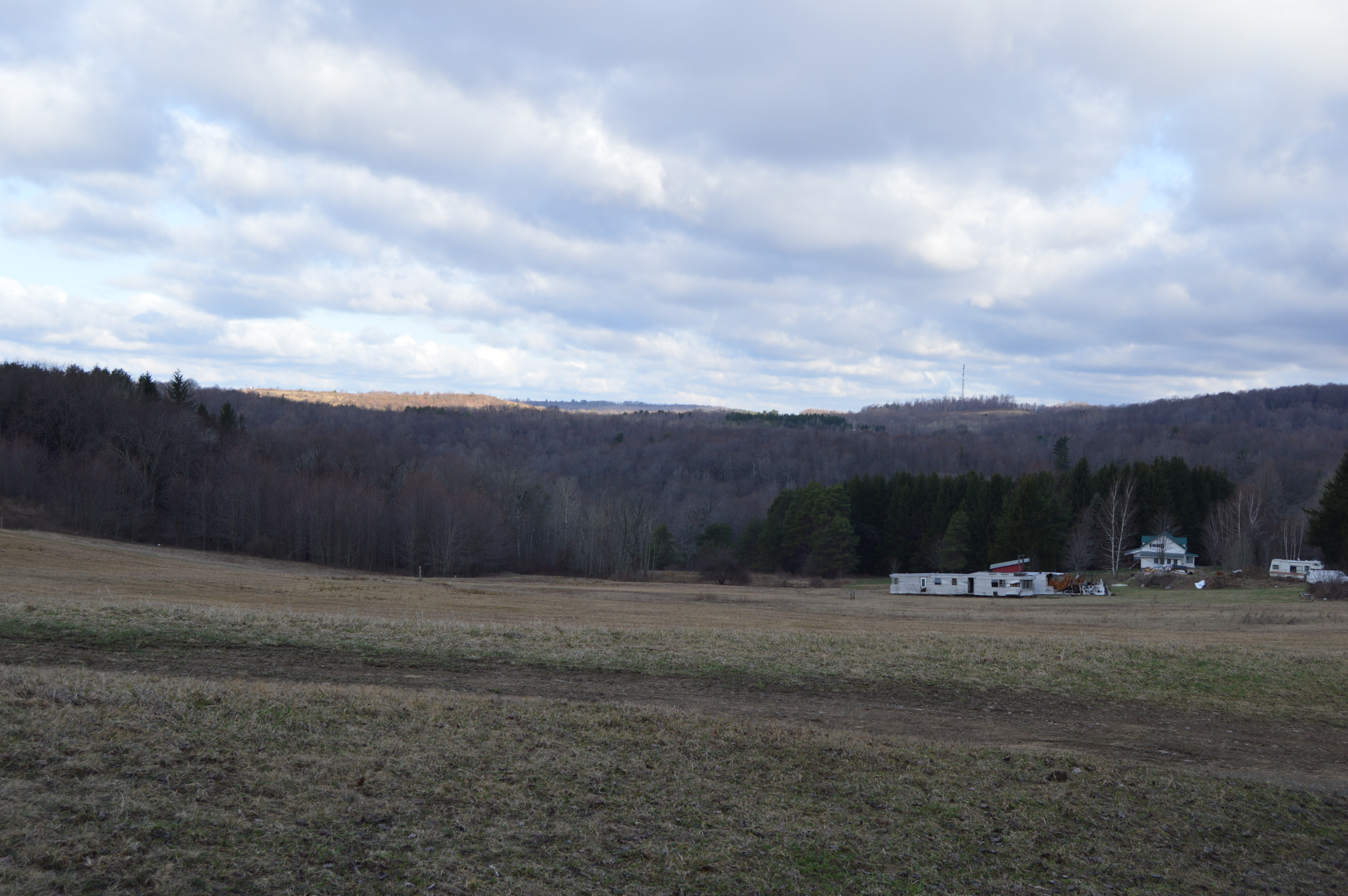 Fields northwest of Reynoldsville in Winslow Township, Jefferson County, Pennsylvania, United States. Photo looks northwest from Old Turnpike Road.